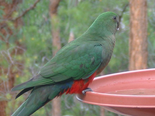 femelle d'Alisterus scapularis, Australian King-Parrot female